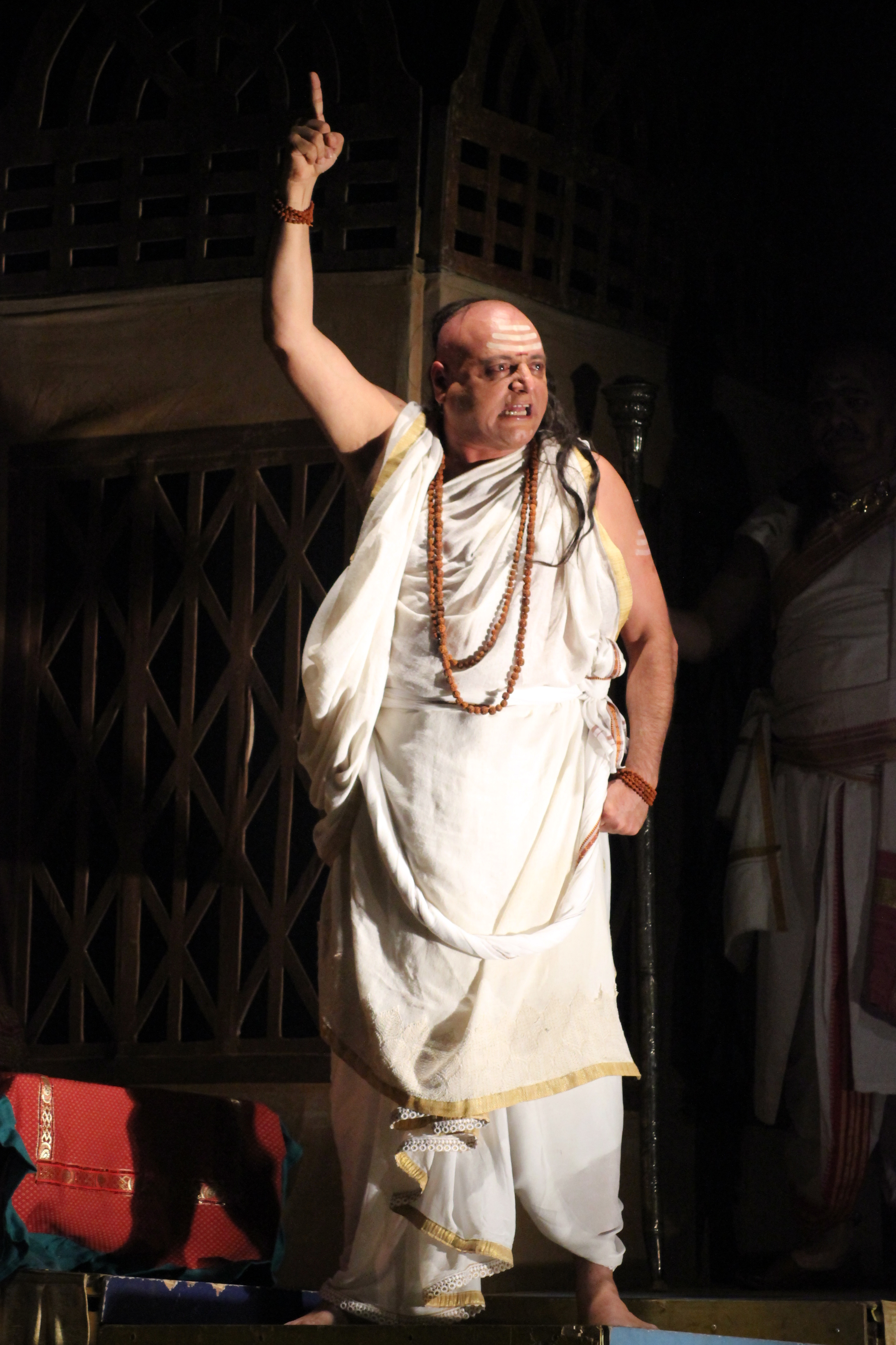 Manoj Joshi as Chanakya - Play in Adi Vidrohi Natya Samaroh at Ravindra Bhavan Bhopal December 2015